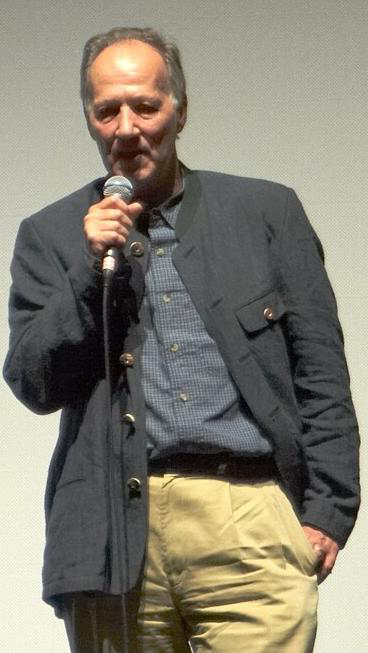 Werner Herzog answers questions after the premiere screening of Rescue Dawn in Toronto.